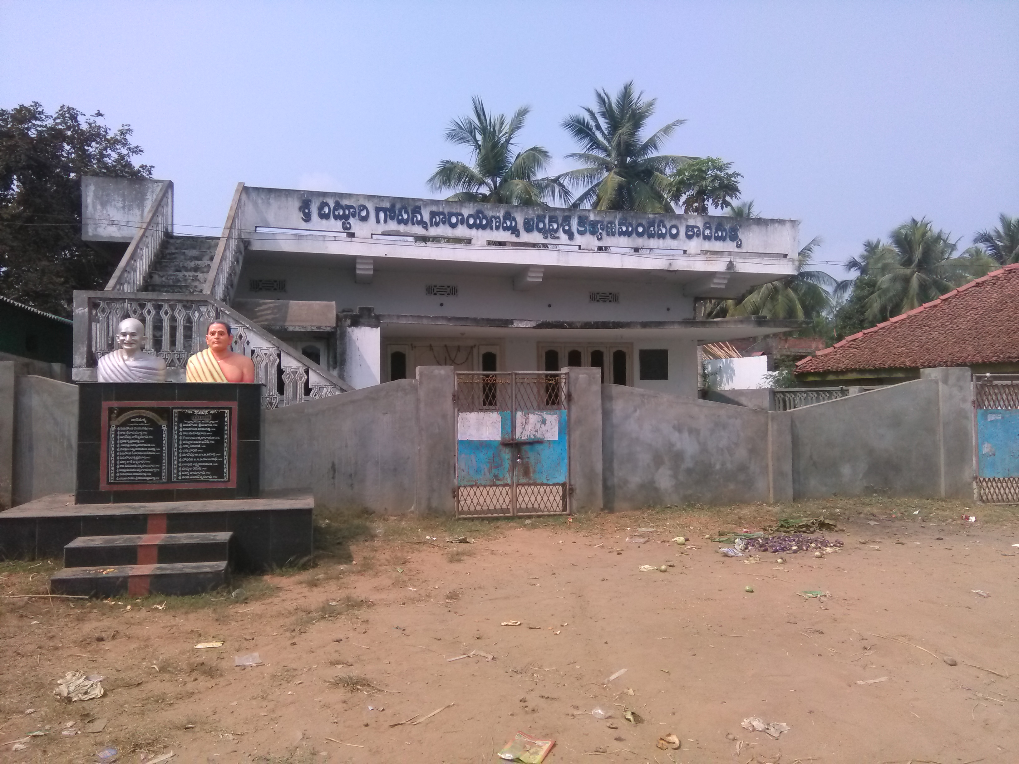 A.P Village Tadimalla (2)